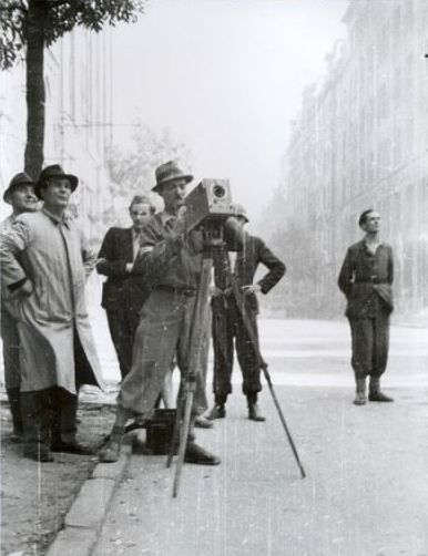 Warsaw Uprising: Filmmaker Seweryn Kruszyński on intersection of Zgoda and Sienkiewicza streets films firefighting efforts.